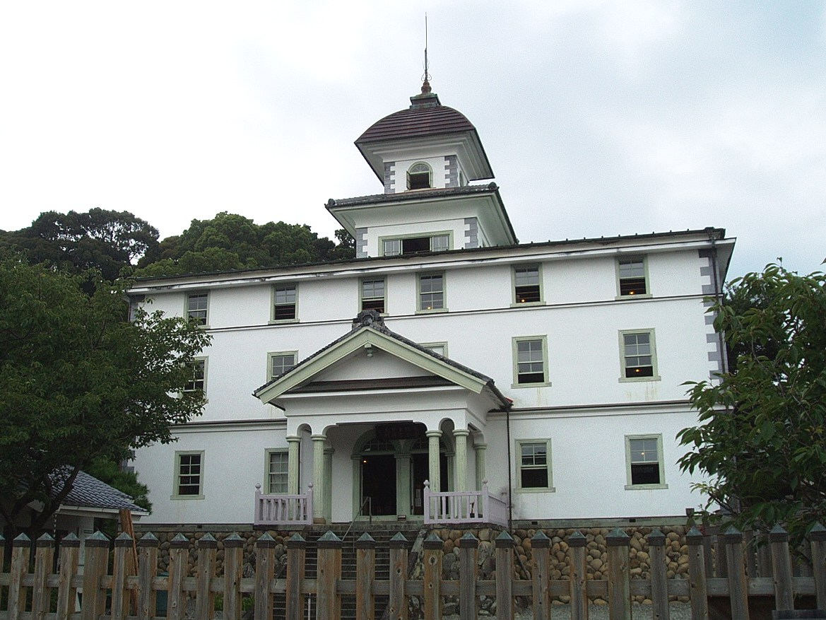 Old Mitsuke School (Kyū Mitsuke Gakkō), a conserved building of an elementary school built in 1875, located in Iwata, Shizuoka, Japan. A national historic site of Japan.